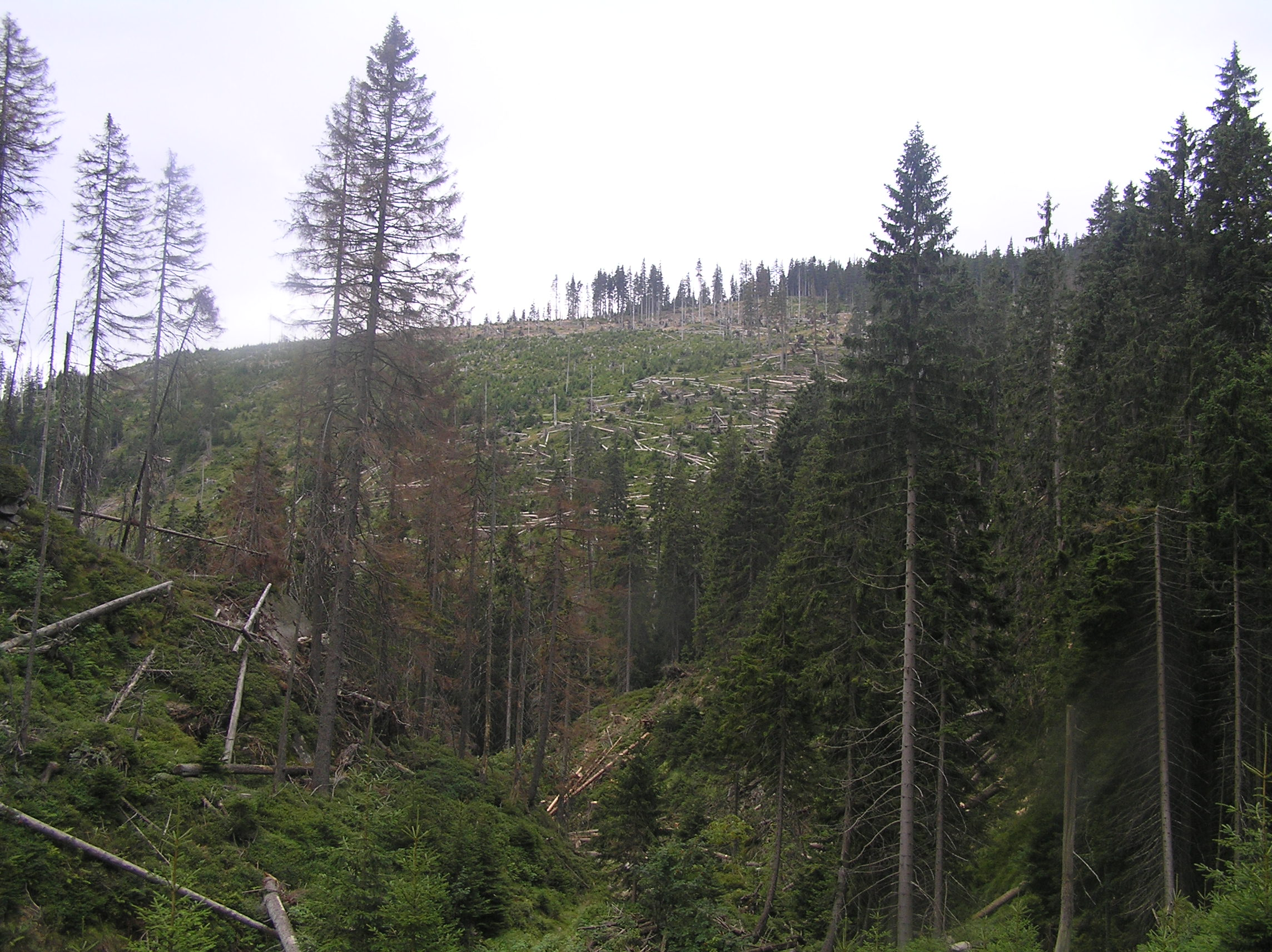 Jelení potok (creek), Krkonoše, Czech Republic